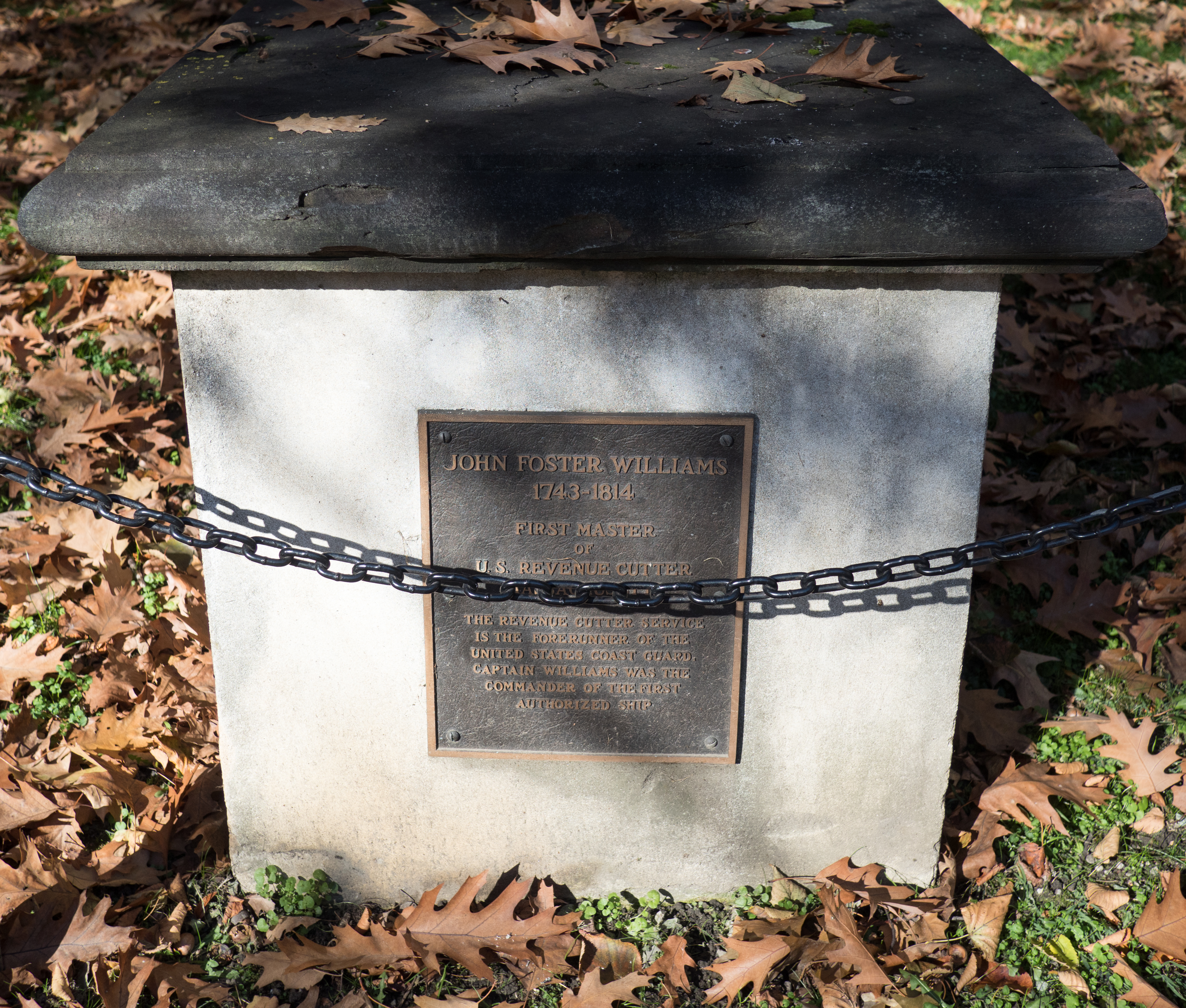 John Foster Williams sarcophagus at the Granary Burying Ground in Boston